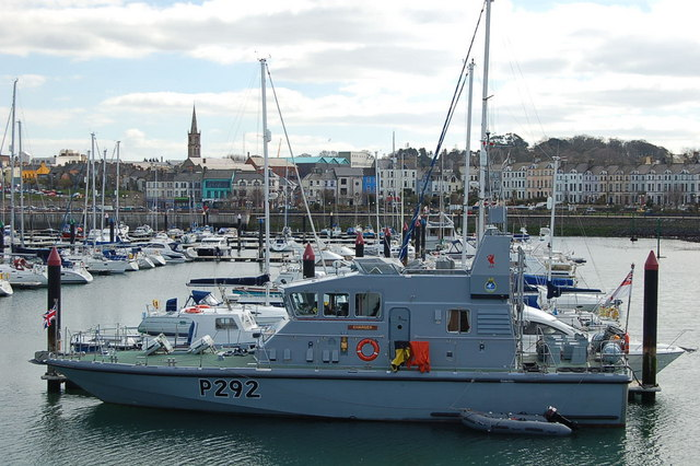 H M S "Charger" (1) Several university naval squadrons operate small coastal training craft designated as the “P2000” class. One of the boats, HMS ”Charger” - attached to Liverpool – is seen at Bangor marina.